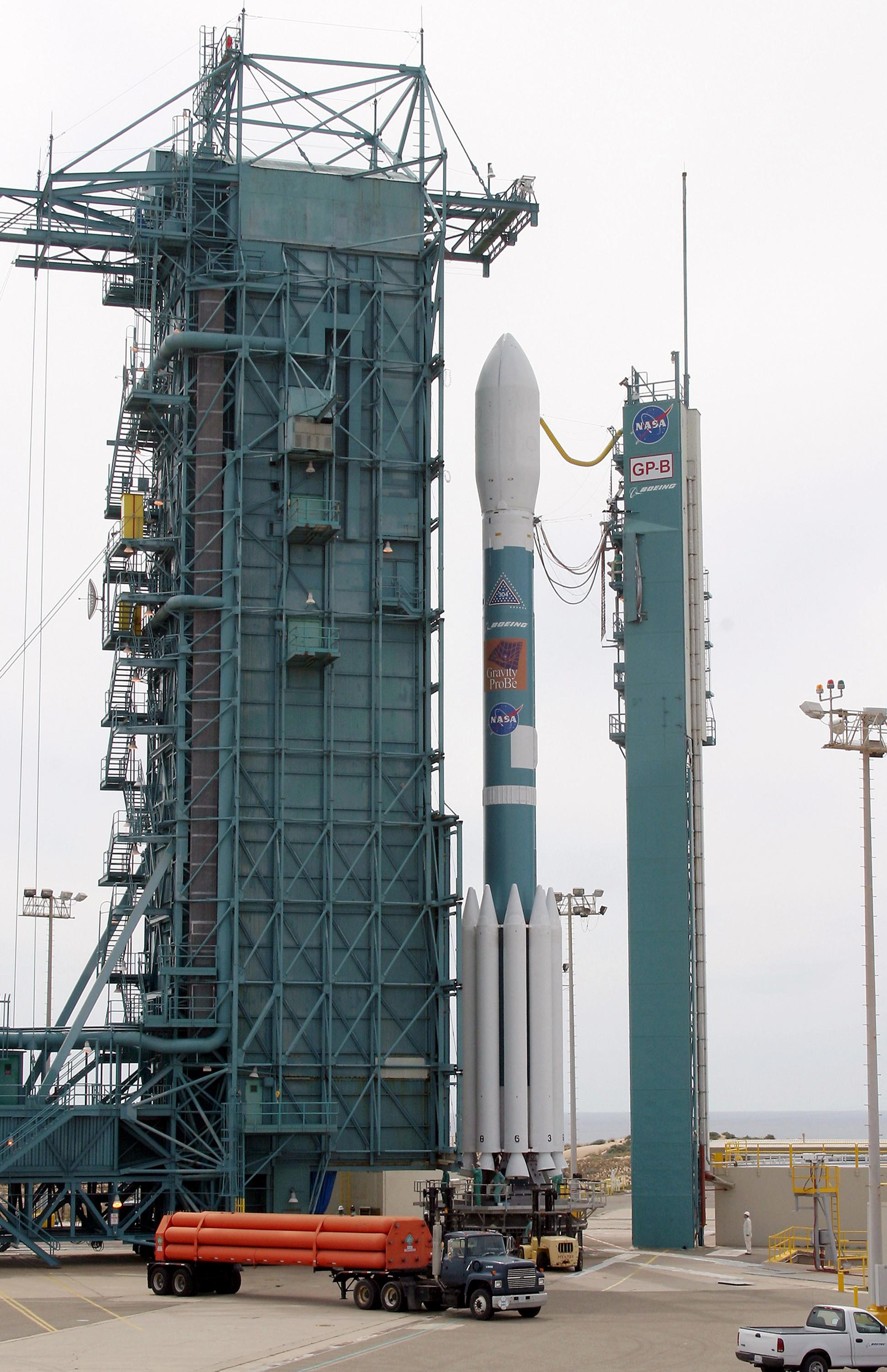 Mobile Service Tower rolls over the Delta II on SLC-2W after first launch attempt.